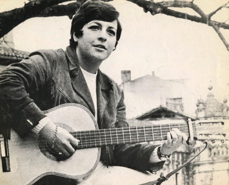 Estitxu (Estibaliz Robles-Arangiz), Basque singer, in 1970